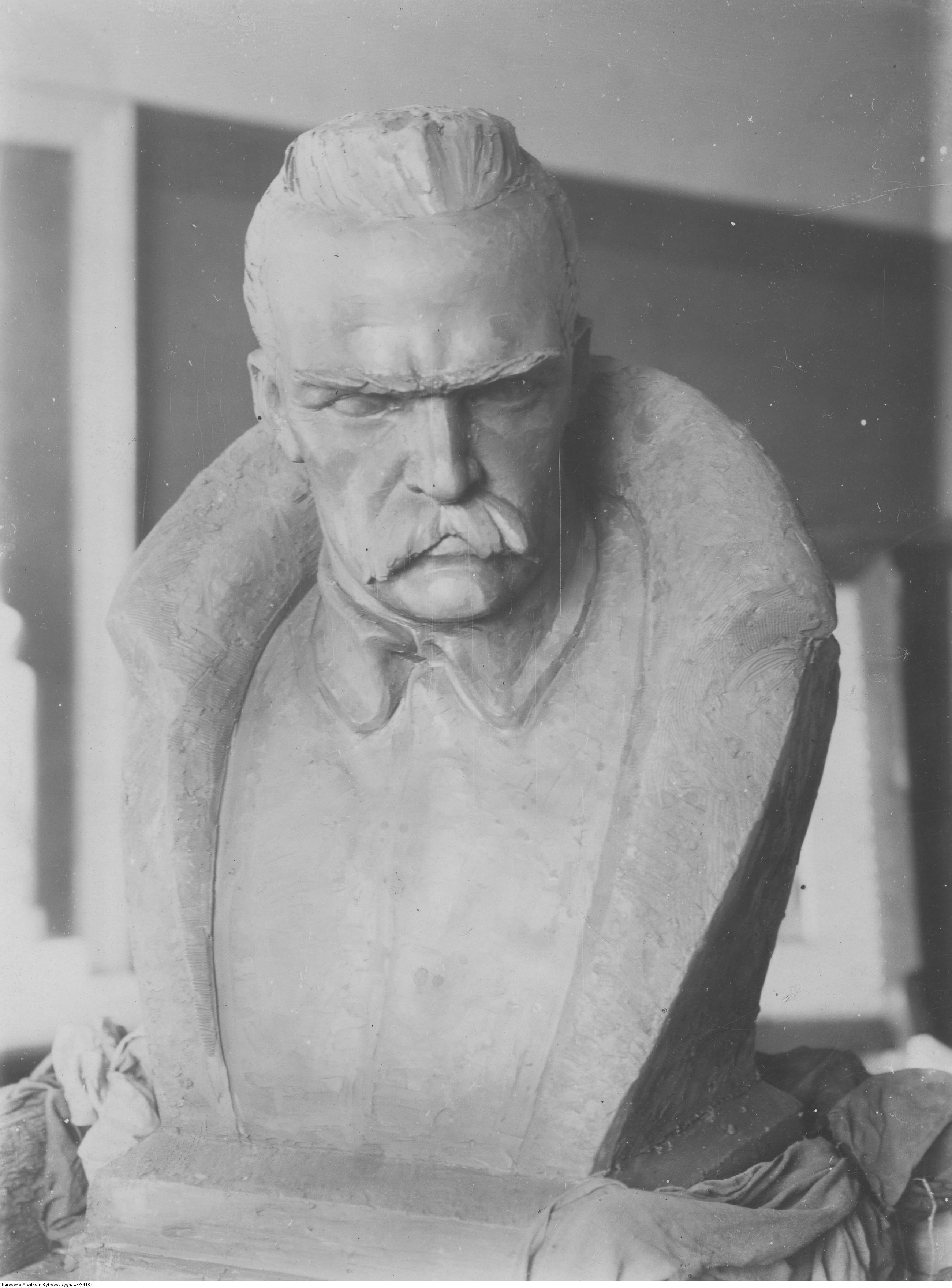 Sculpture by Janina Reichert depicting the bust of Józef Piłsudski for the cadet school in Lviv.